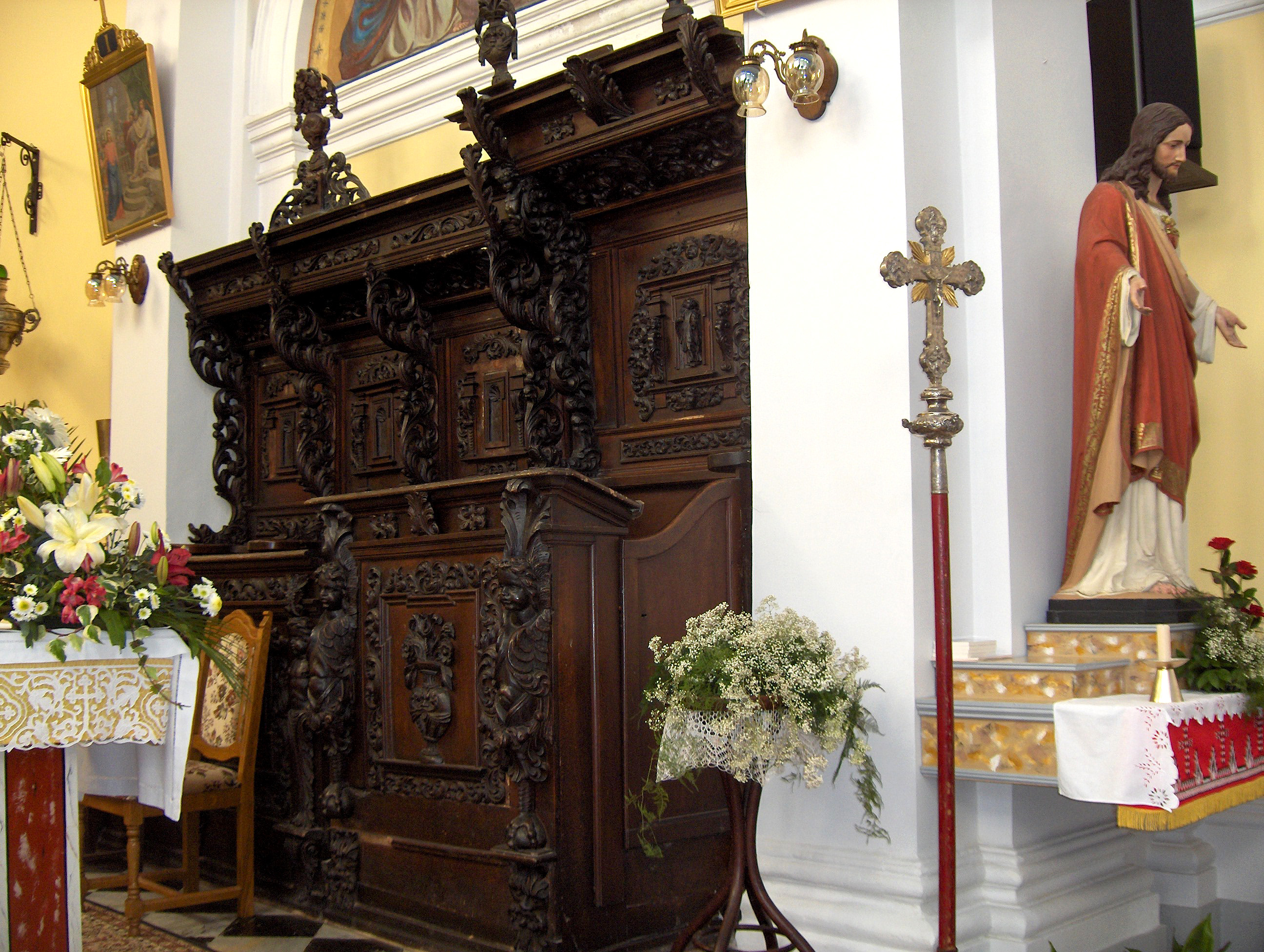 Walnut canonical choir (1620-1705); St. Andrew's church; Mošćenice, Croatia